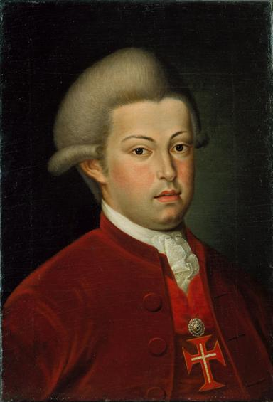 The future King João VI when Prince of Brazil